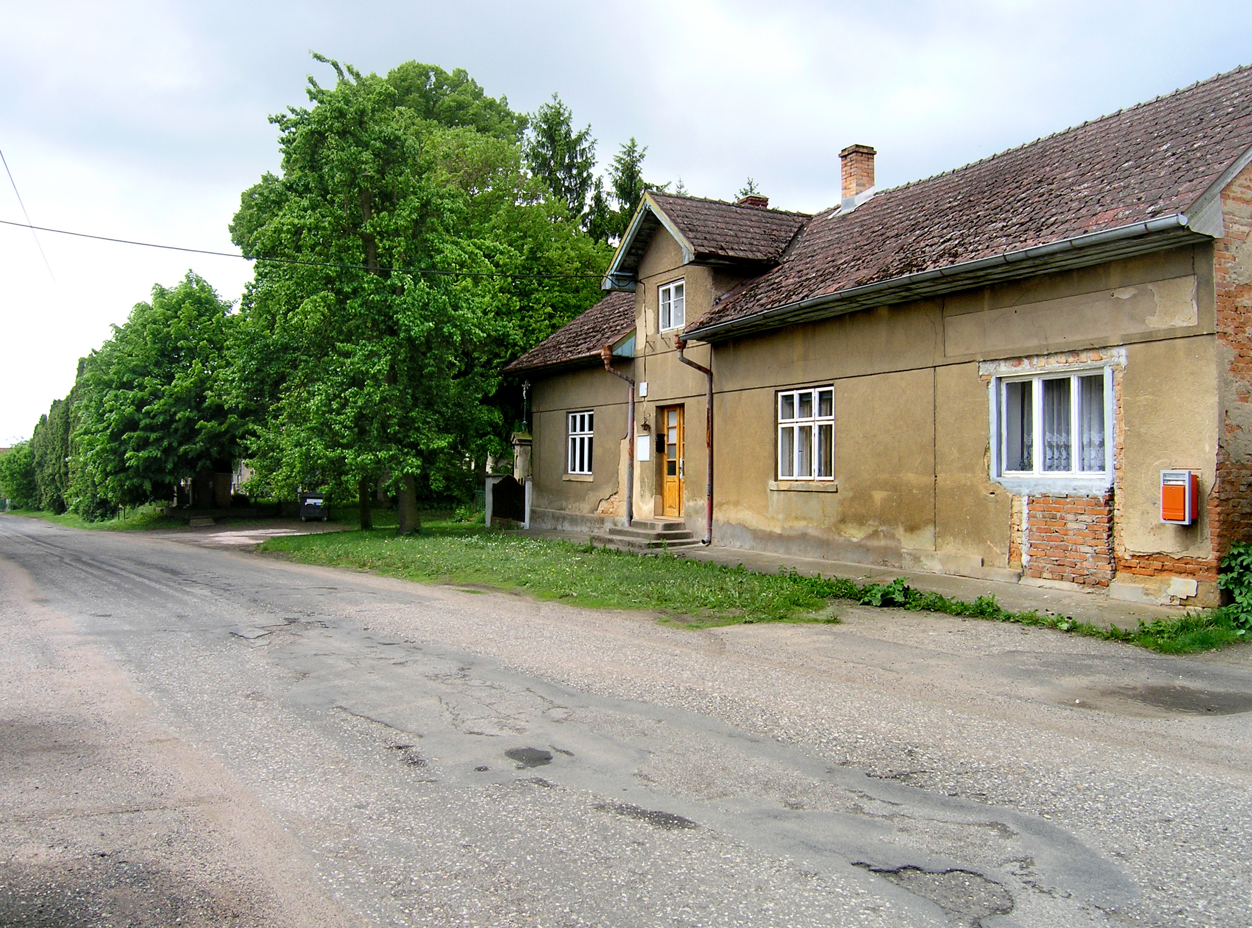 Drahoraz, part of Kopidlno, Czech Republic